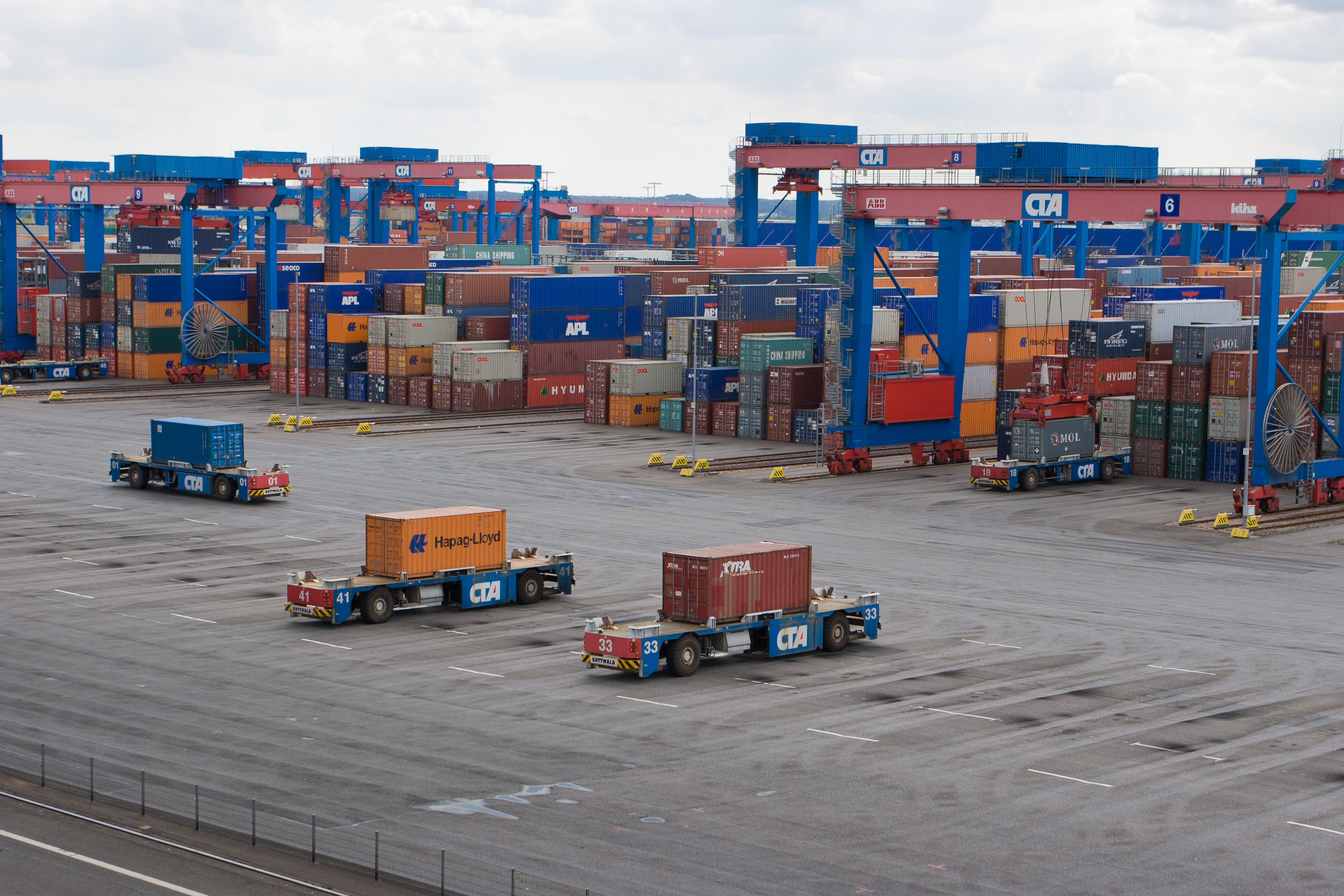 Hamburg Container Terminal Altenwerder. Shows the driverless AGV vehicles that transport containers around in the terminal.